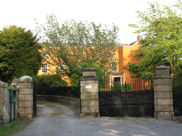 Spennithorne Hall A glimpse of the hall through the gates. The hall is mainly early 18th century, but has some parts dating back to the 16th century. The south front of the hall is best seen from the hillside to the east of Middleham.